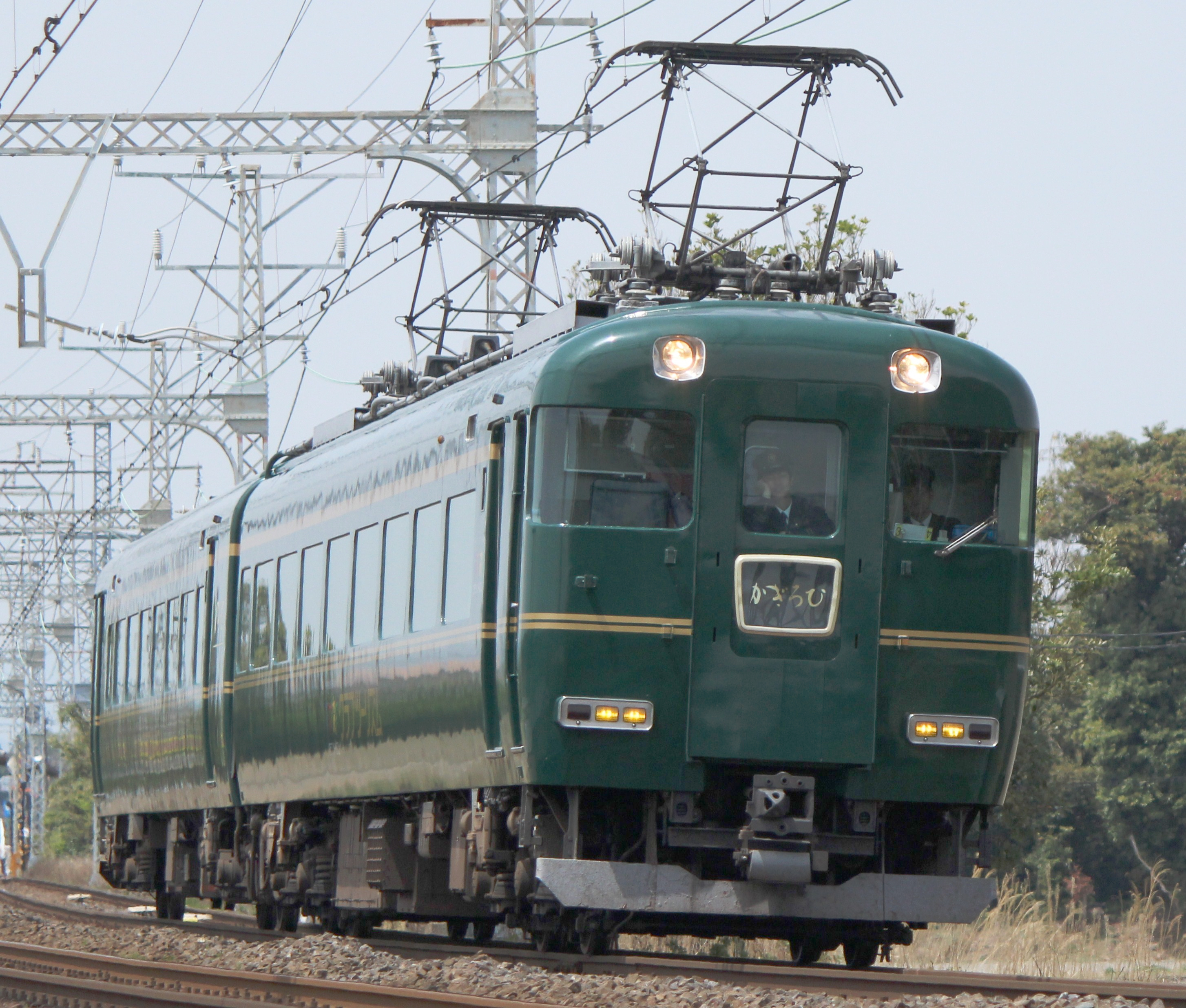 Kintetsu 14500 series Kagirohi EMU